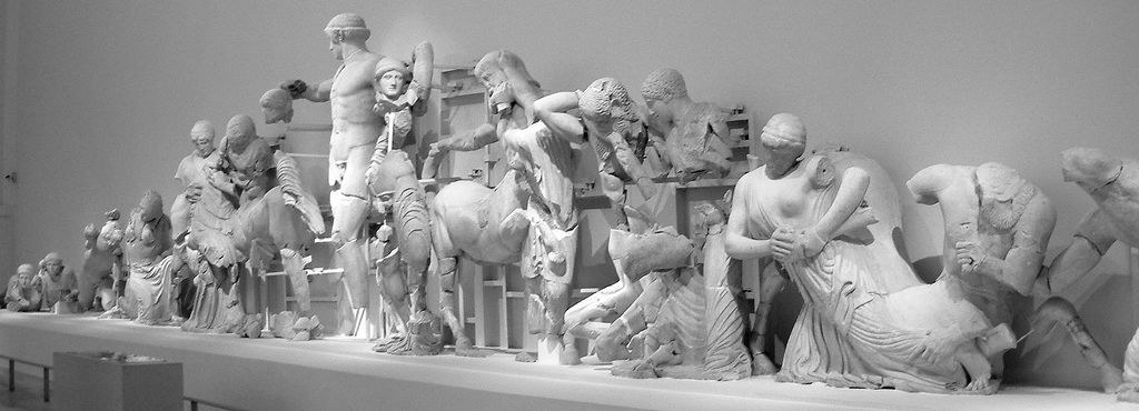 Sculptures of the west pediment of the Temple of Zeus at Olympia. Olympia Archaeological Museum.